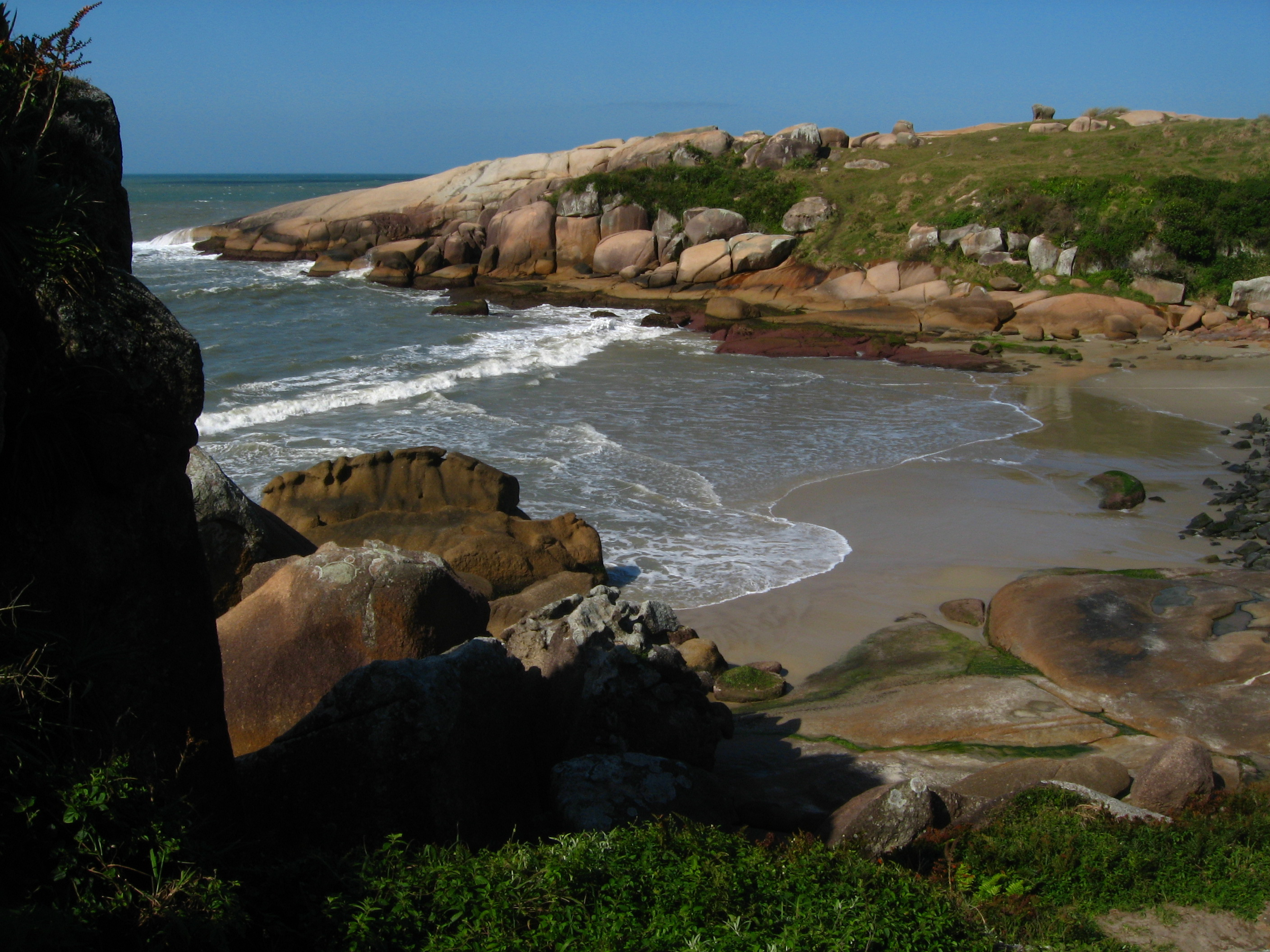 Gravatá Beach, Florianopolis, Brazil.